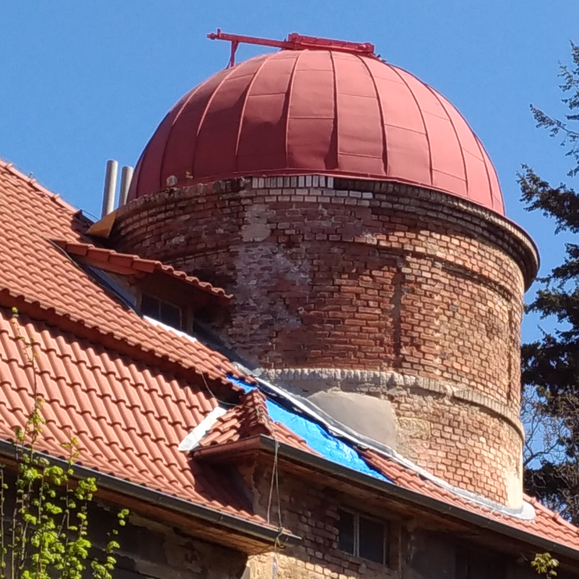 The dome of defunct private observatory of František Fischer, Prague-Podolí, Na Zlatnici 16.